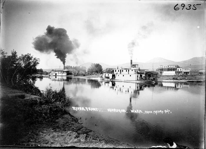 This is a widely-published image of the waterfront at Okanogan, Washington, USA in May 1909. It was also made into a postcard.